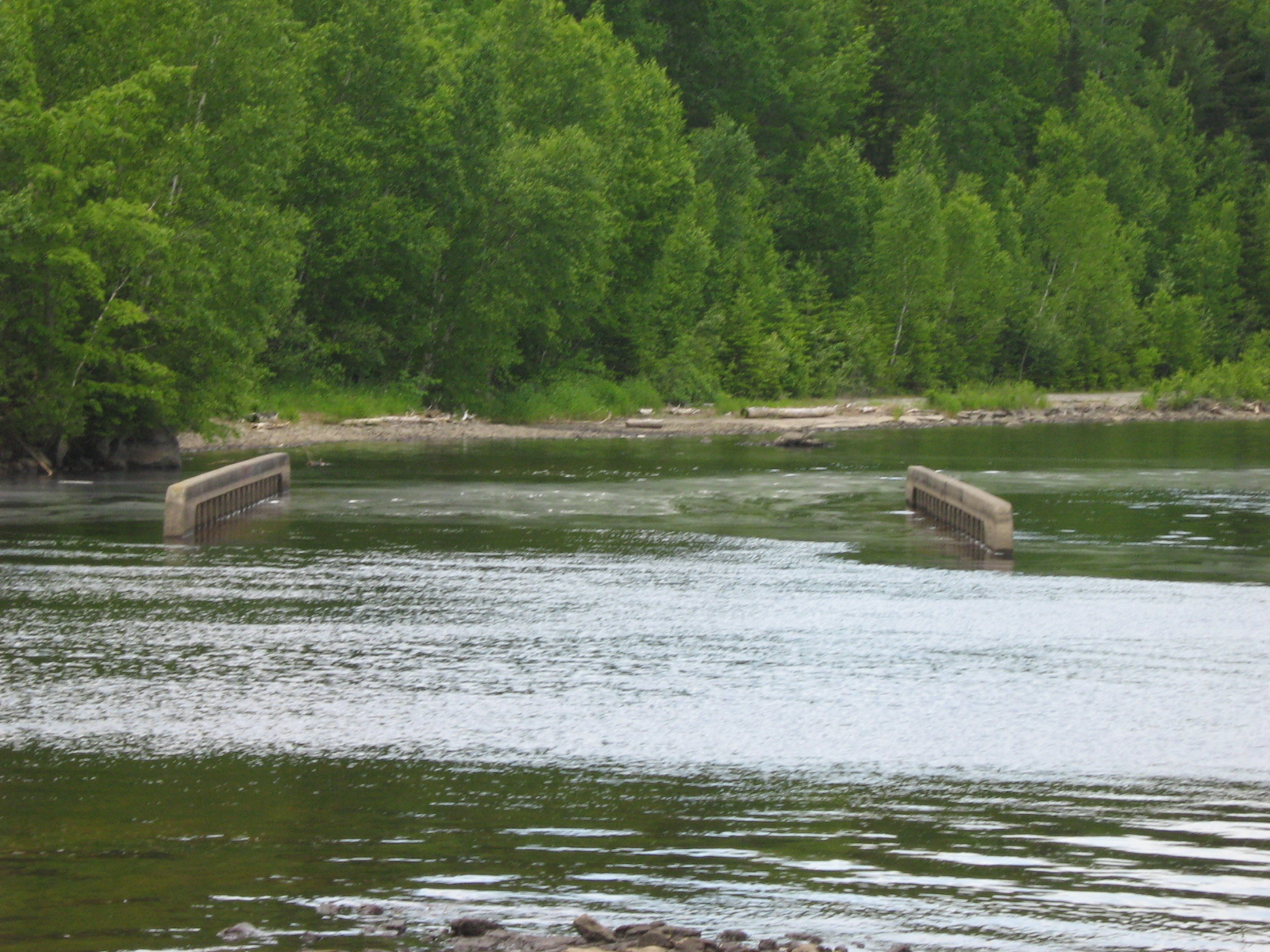 View of Shogomac bridge near Pokiok, NB. This was the old highway before the Mactaquac Dam was built.